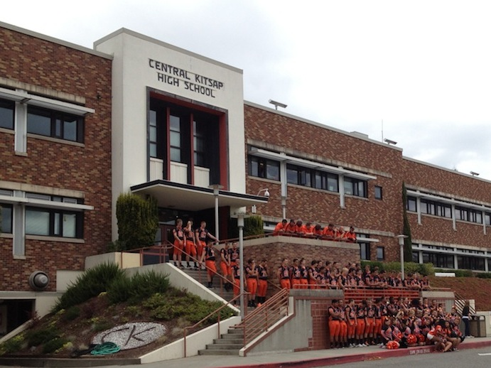 Central Kitsap High School, Silverdale, Washington, United States. Main entry with football team posing for start of season team photo.